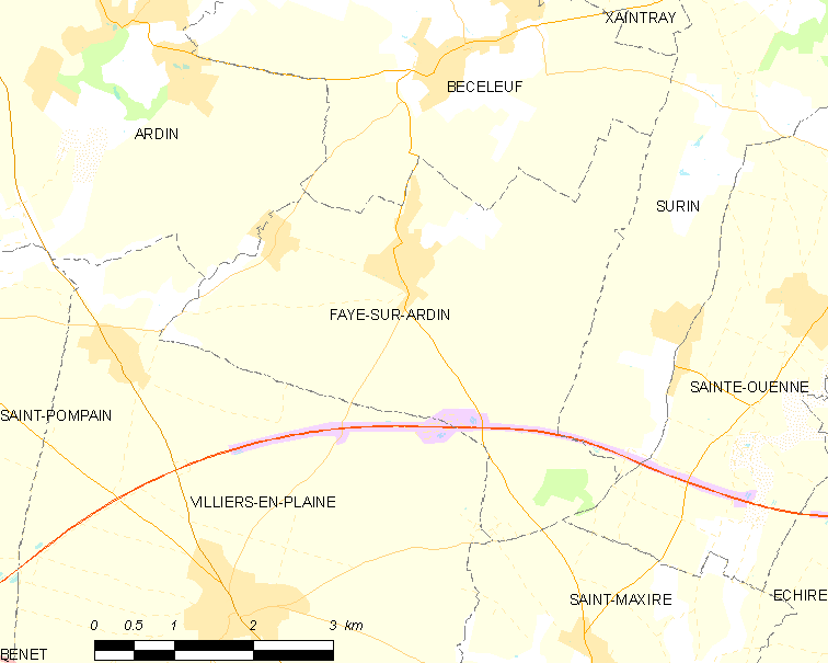 Map of French municipality Faye-sur-Ardin